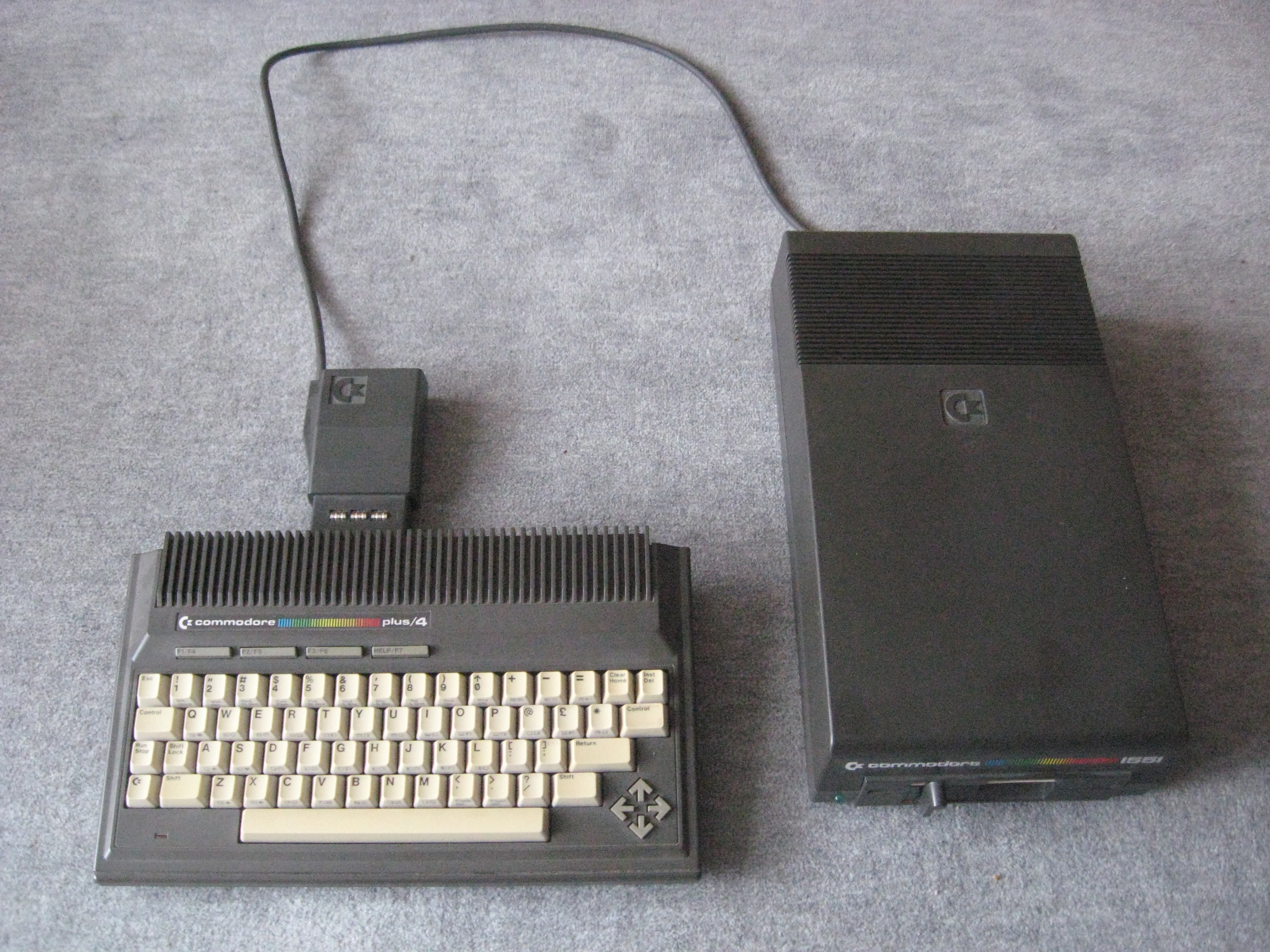 Commodore Plus/4 with a 1551 floppy disk drive the drive ist not connected to the computer